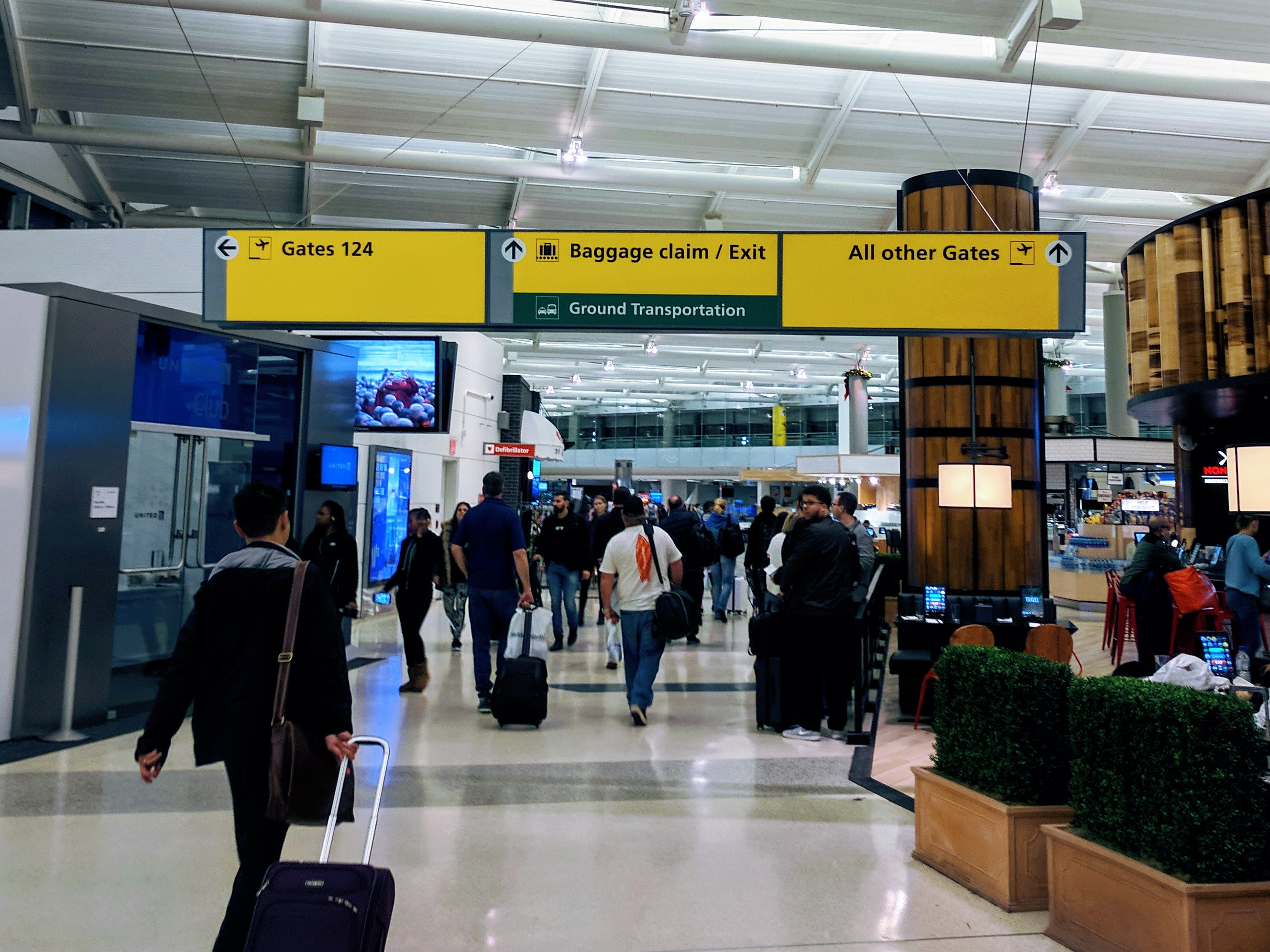 Terminal signage shown is part of the Port Authority of New York and New Jersey airport wayfinding system, which is based on the internationally used Schiphol Wayfinding System.